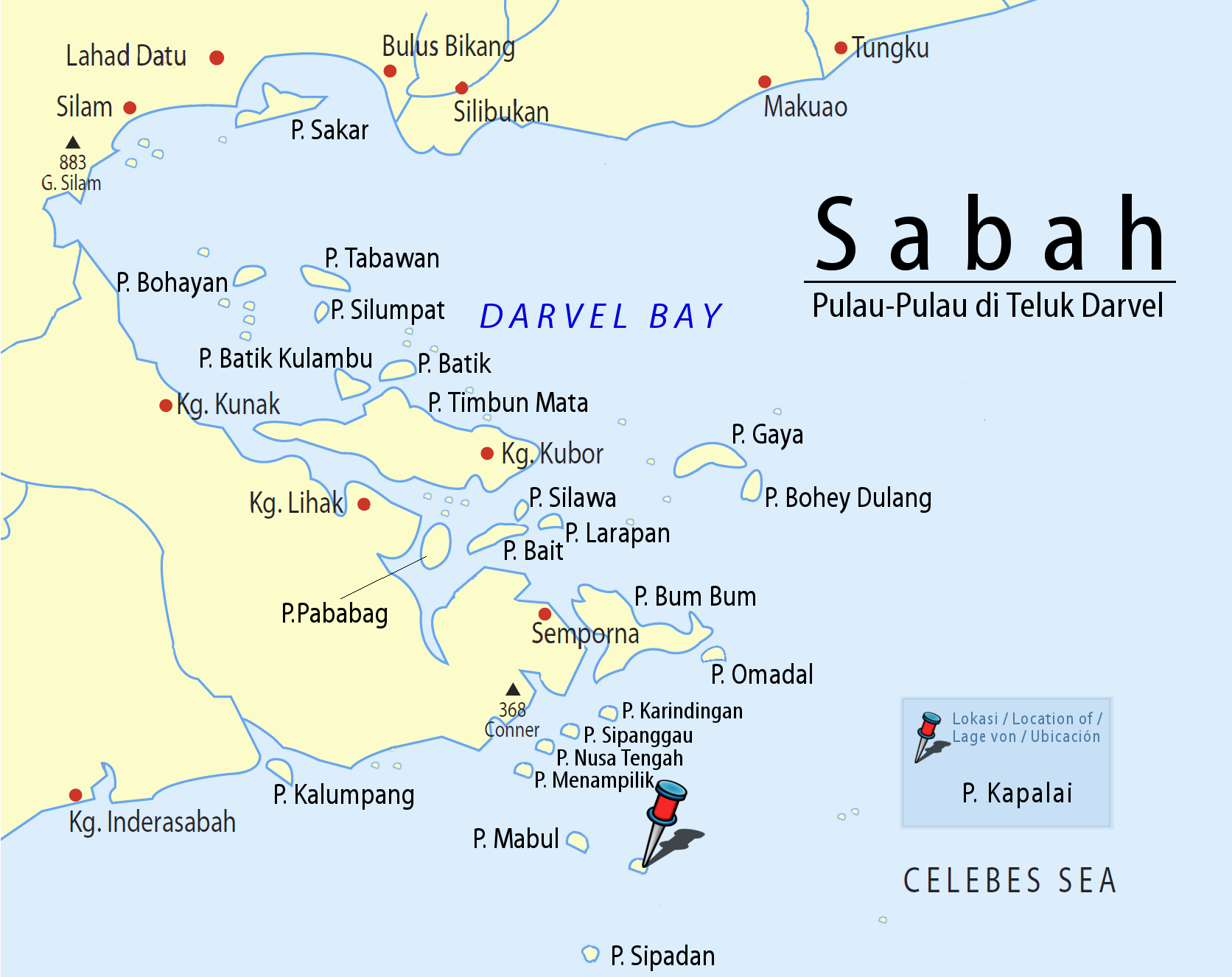 Sabah: Scheme of Islands in the Darvel Bay with Pushpin Marker for Pulau Kapalai (which is not part of the Darvel Bay)